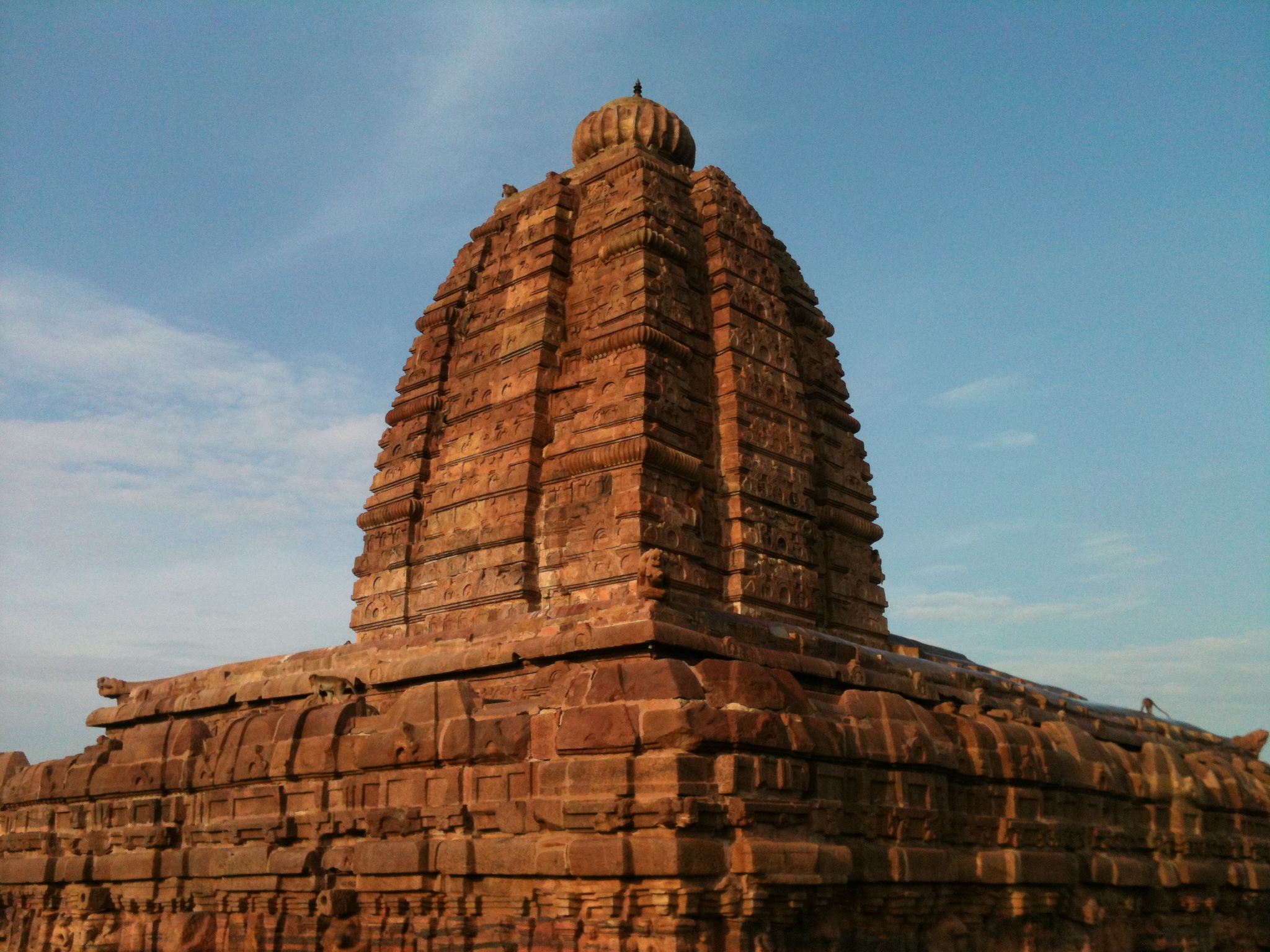 Historic Sangameshwar Temple at Alampur, Andhra Pradesh.